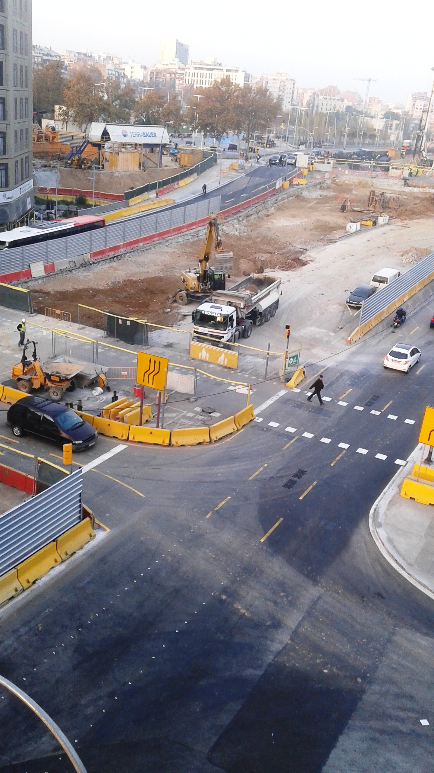 Remodeling of the Les Glòries Catalanes Square, namely preparations for underground tunnels. Camera Position: Crossing Gran Via Corts Catalanes with Castillejos street.